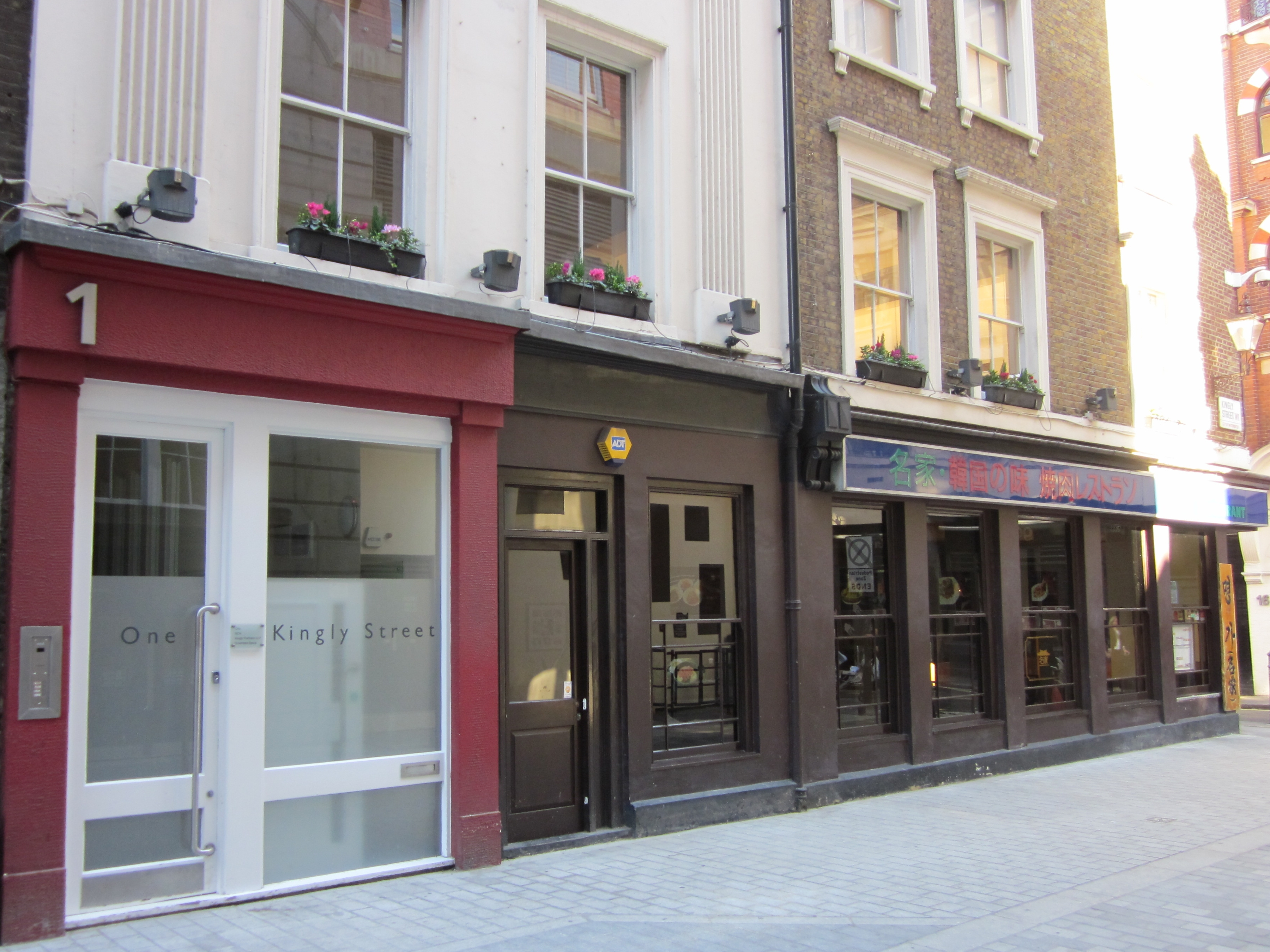 1 Kingly St in Soho, London was the site of The Cat's Whisker, a coffee bar that saw the invention of the hand jive and was a hangout for musicians such as Cliff Richard. In 2010 it is a Korean restaurant called Myung Ga.